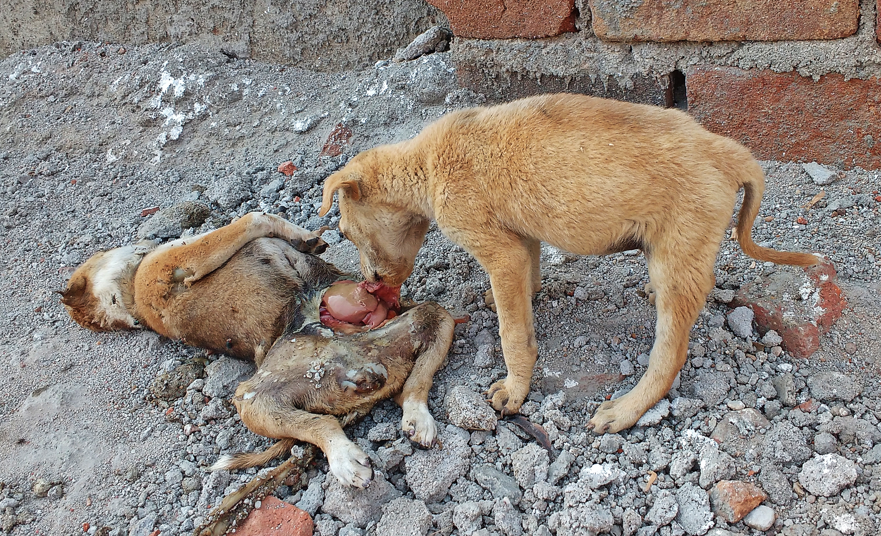 A puppy was cannibalizing upon another dead puppy.